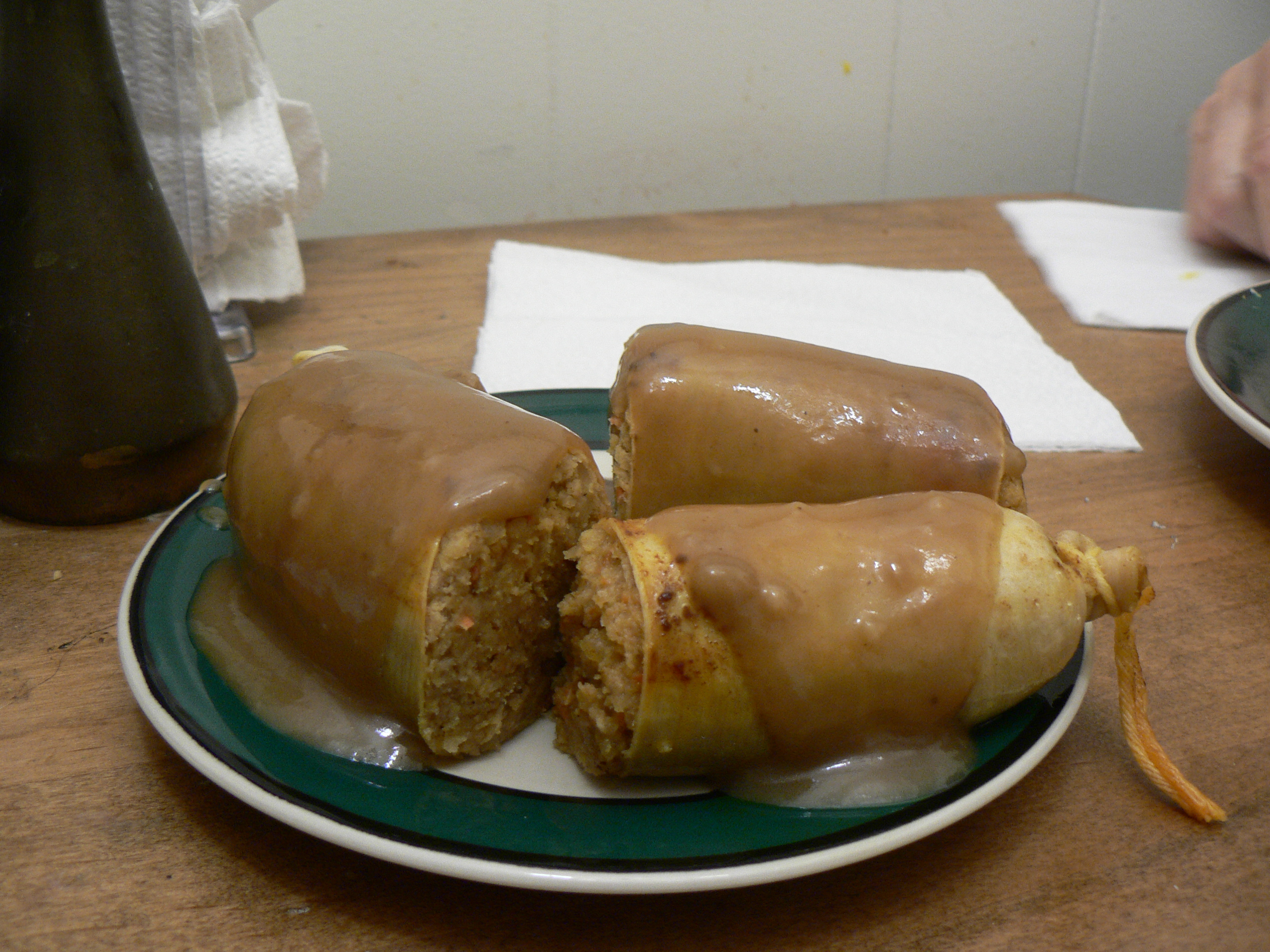 (Jewish) Kishke is traditionally made with beef intestine. That's increasingly rare. Of course, I think kishke of any kind is less popular. At any rate, I think this was the real stuff. The inside is matzo meal and rendered fat. It was delicious.